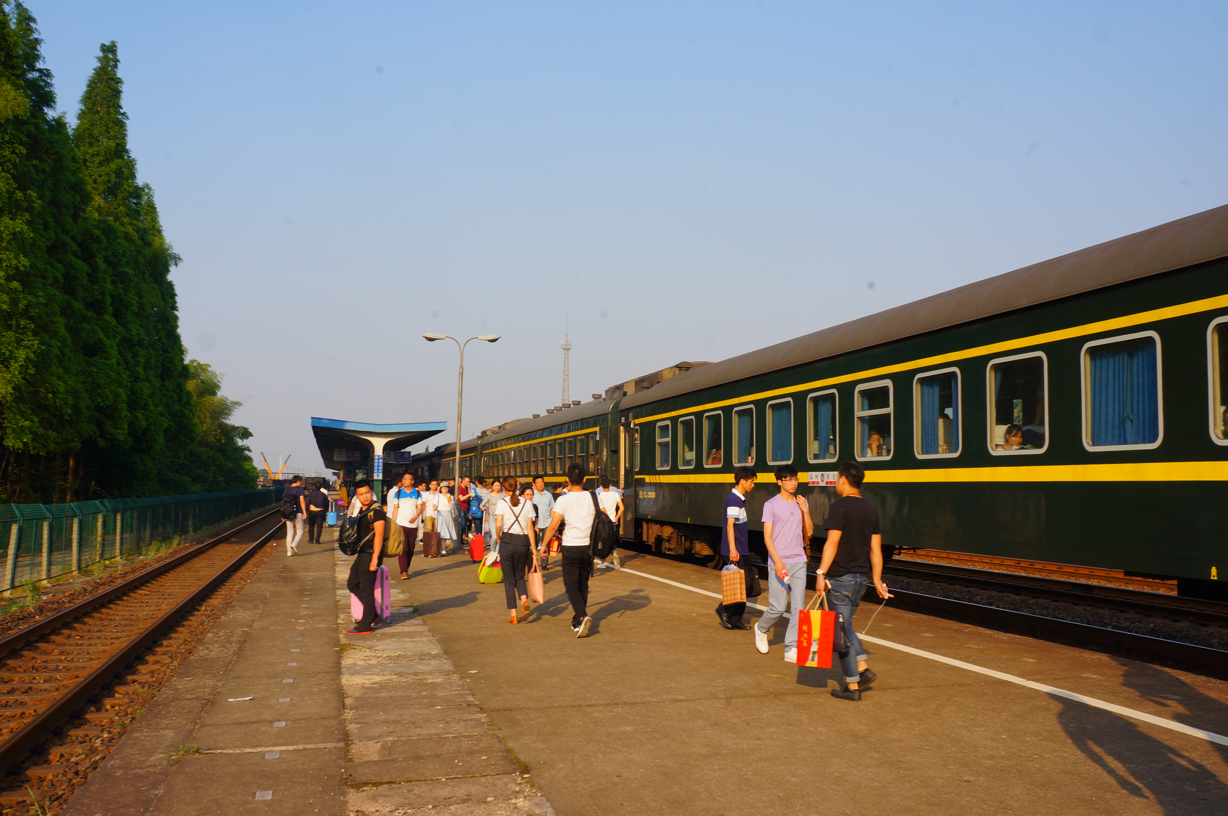 201705 Platform 2,3 of Guangde Station